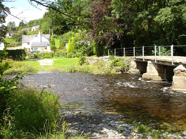 Bridge across the Vyrnwy, Dolanog It looks as though the river is also sometimes forded here.